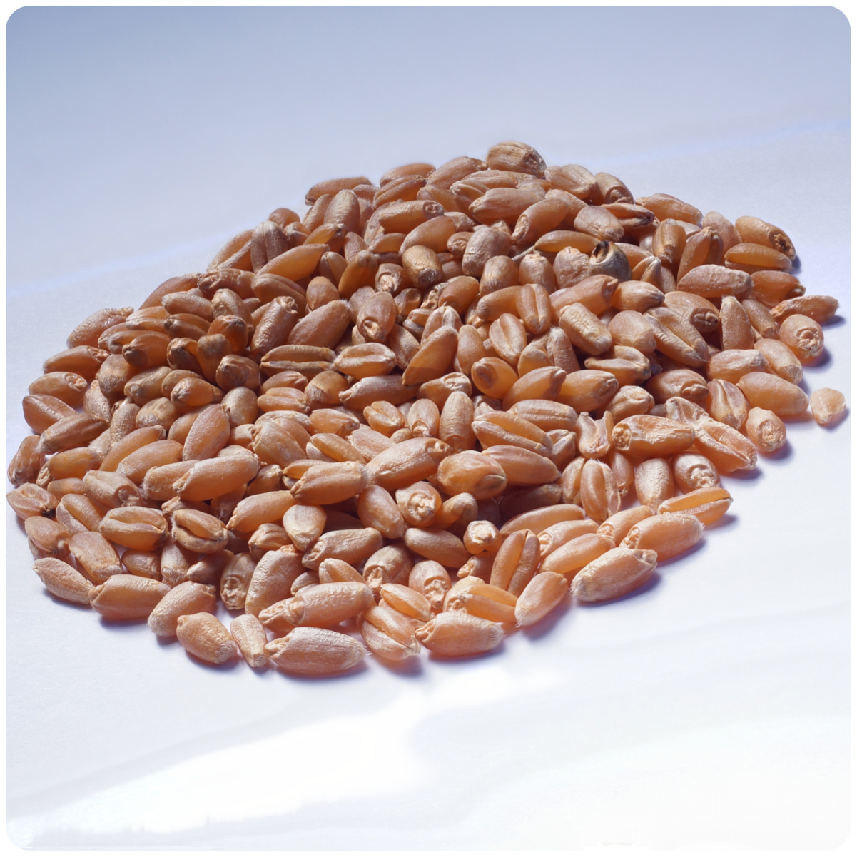 The photo shows wheat grains in close up.